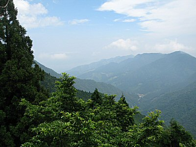 Yanoko Pass. Canon IXY Digital 1000